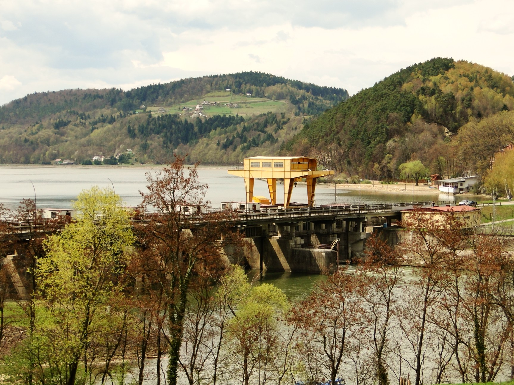 Czchów hydroelectric power plant on Dunajec seen from Piaski-Drużków. In background mountains of Pogórze Rożnowskie.